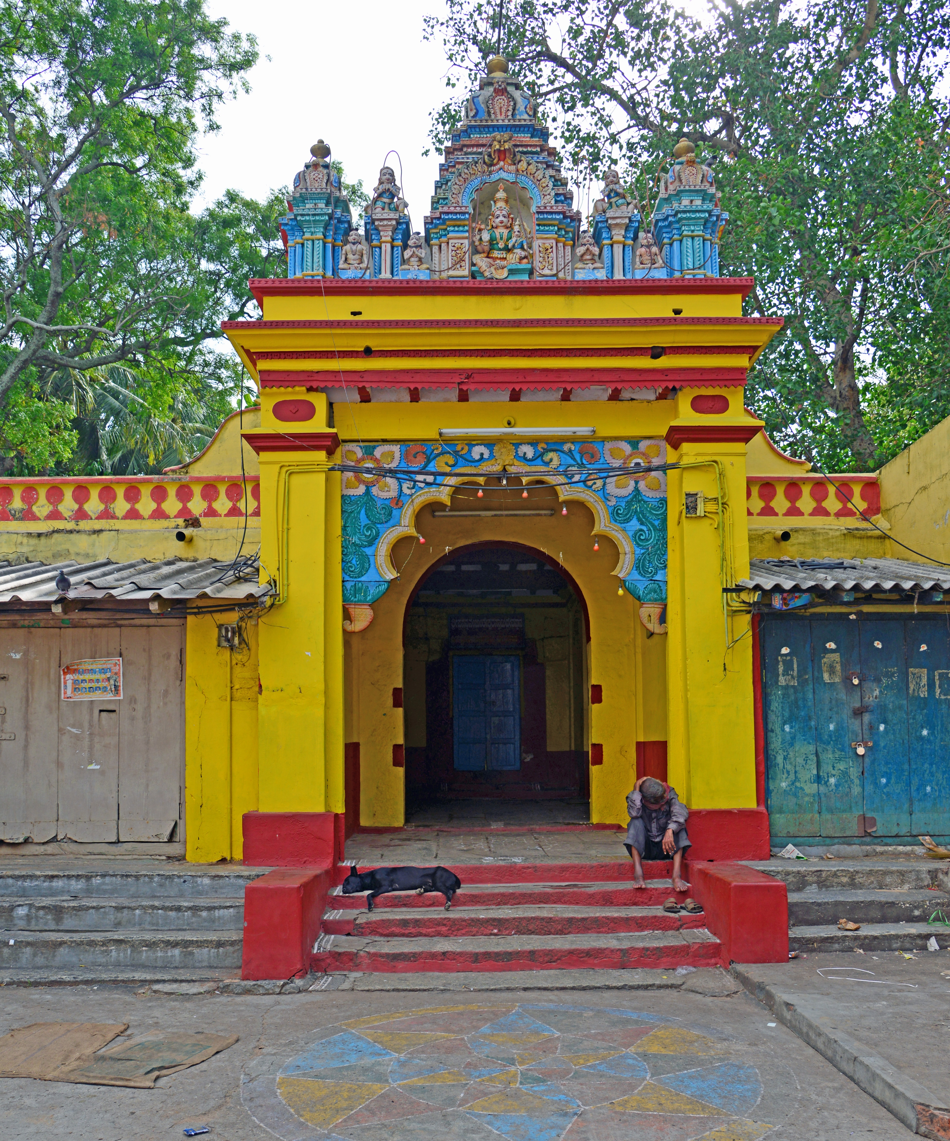 Entrance to the Nanjundeswara temple, off old Santhepet, Mysore